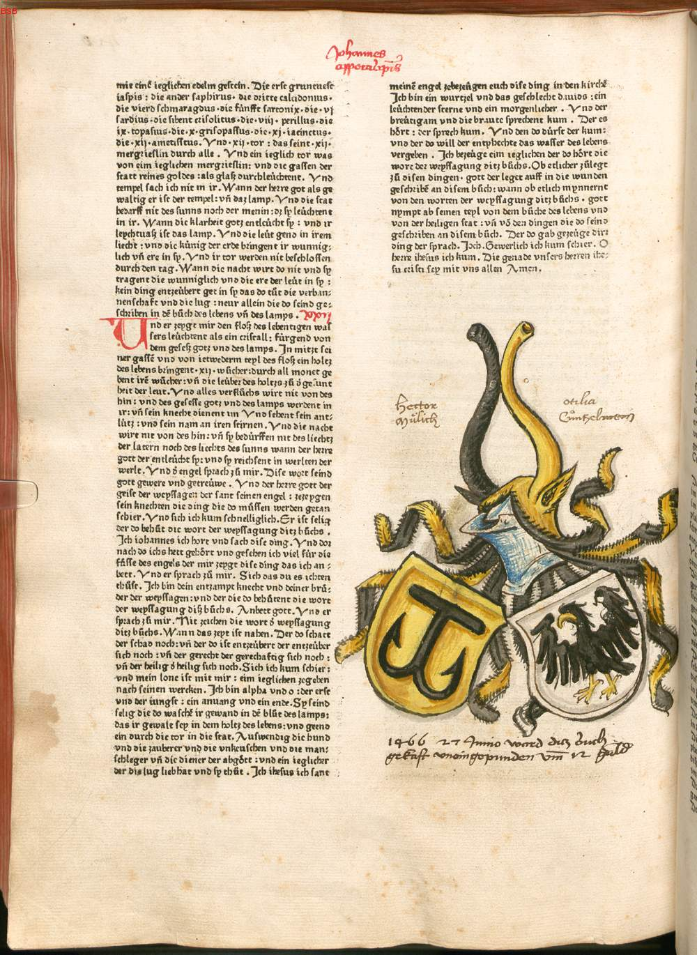 Last page of Mentelin-Bibel with alliance coat of arms of the owner deHektor Mülich and his wife Otilia Cüntzelmein